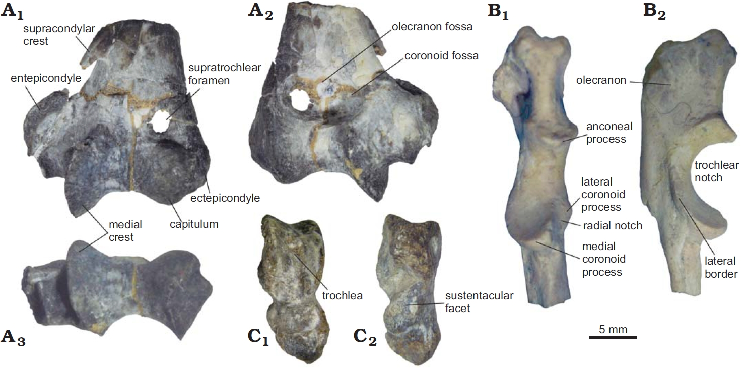 Post-cranial bones of Protypotherium endiadys of the Collón Curá Formation, Argentina